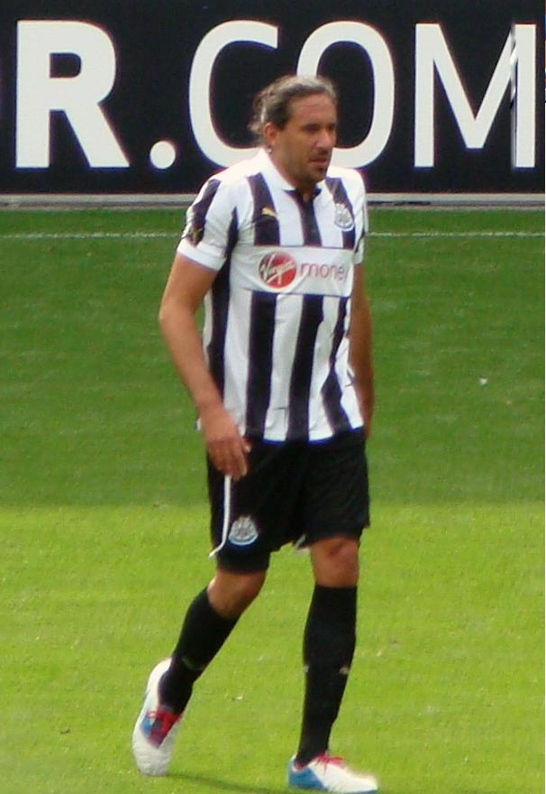 Jonás Gutiérrez playing for Newcastle United in a pre-season friendly against Cardiff City